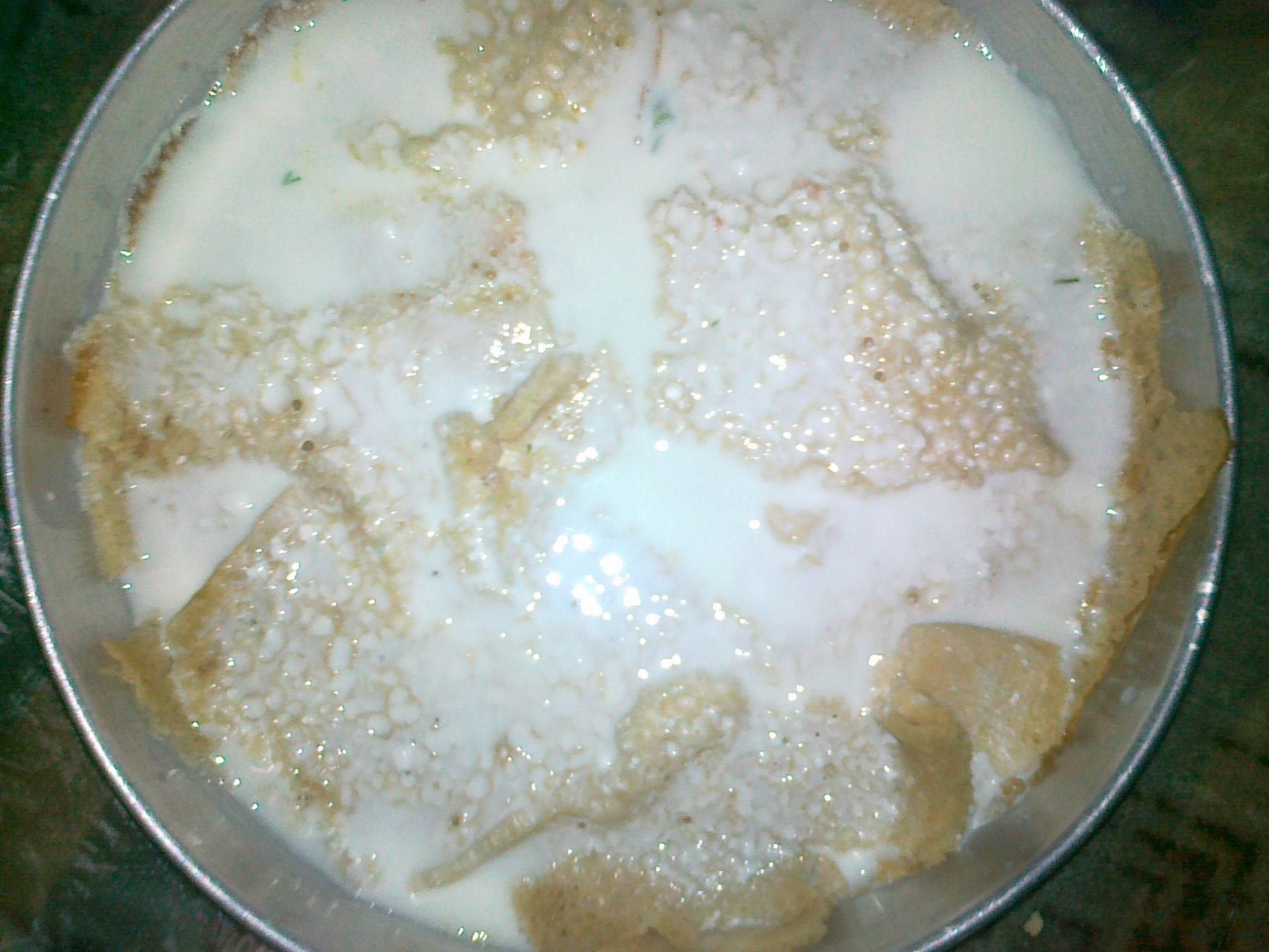 Plain Shafoot consists only of special bread (lahooh) and yogurt.